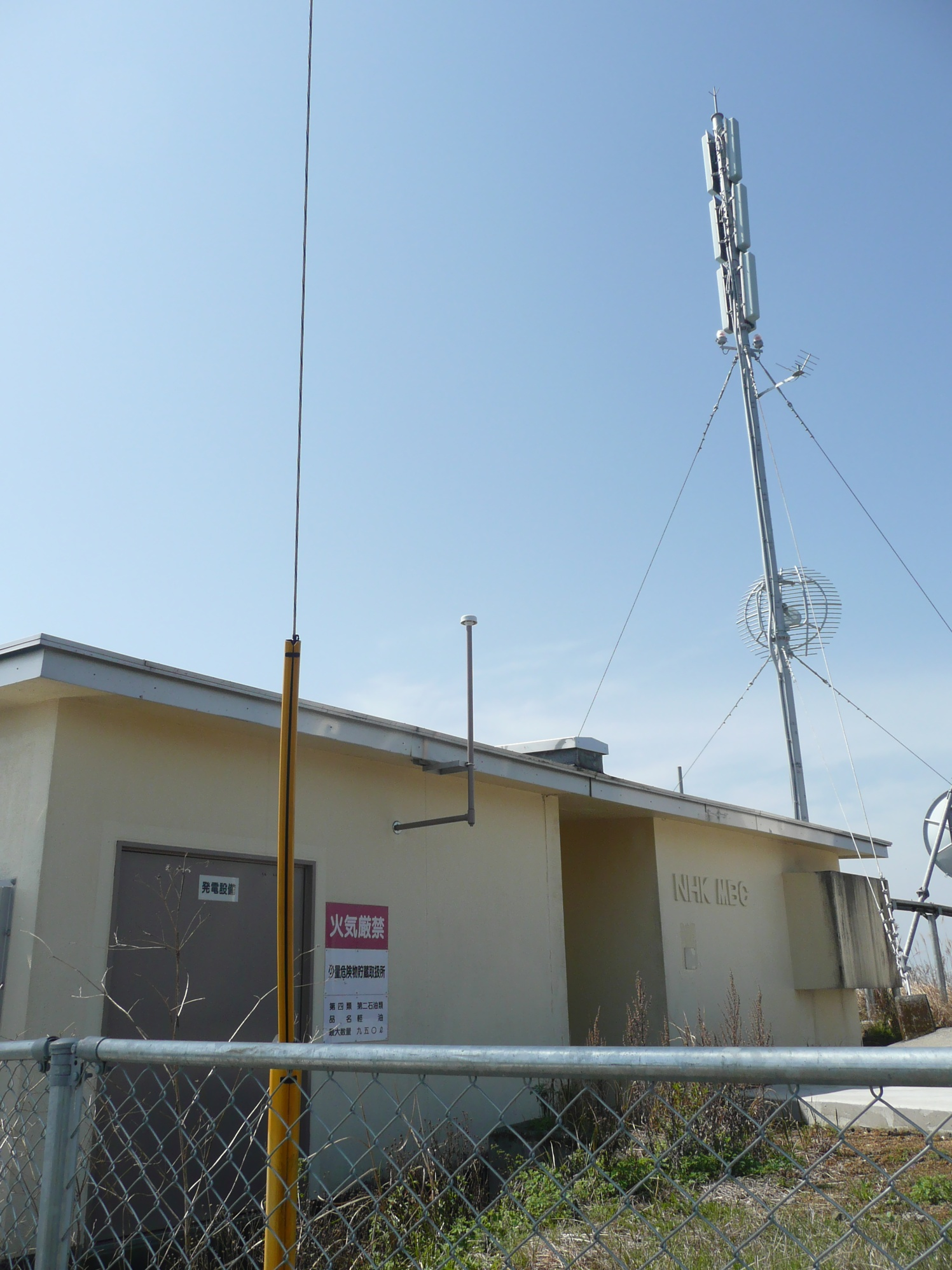 Shibushi Analog TV Repeater (NHK Kagoshima , MBC - Shibushi City, Kagoshima, Japan)